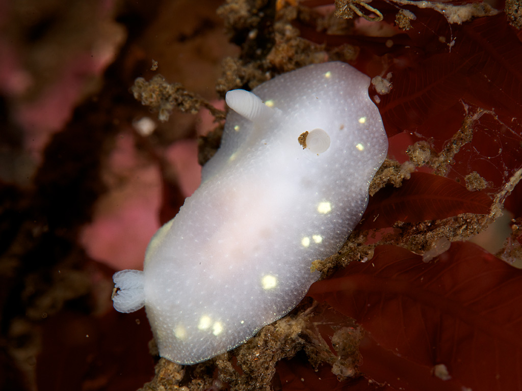 Cadlina laevis, Fedafjord, Norway.